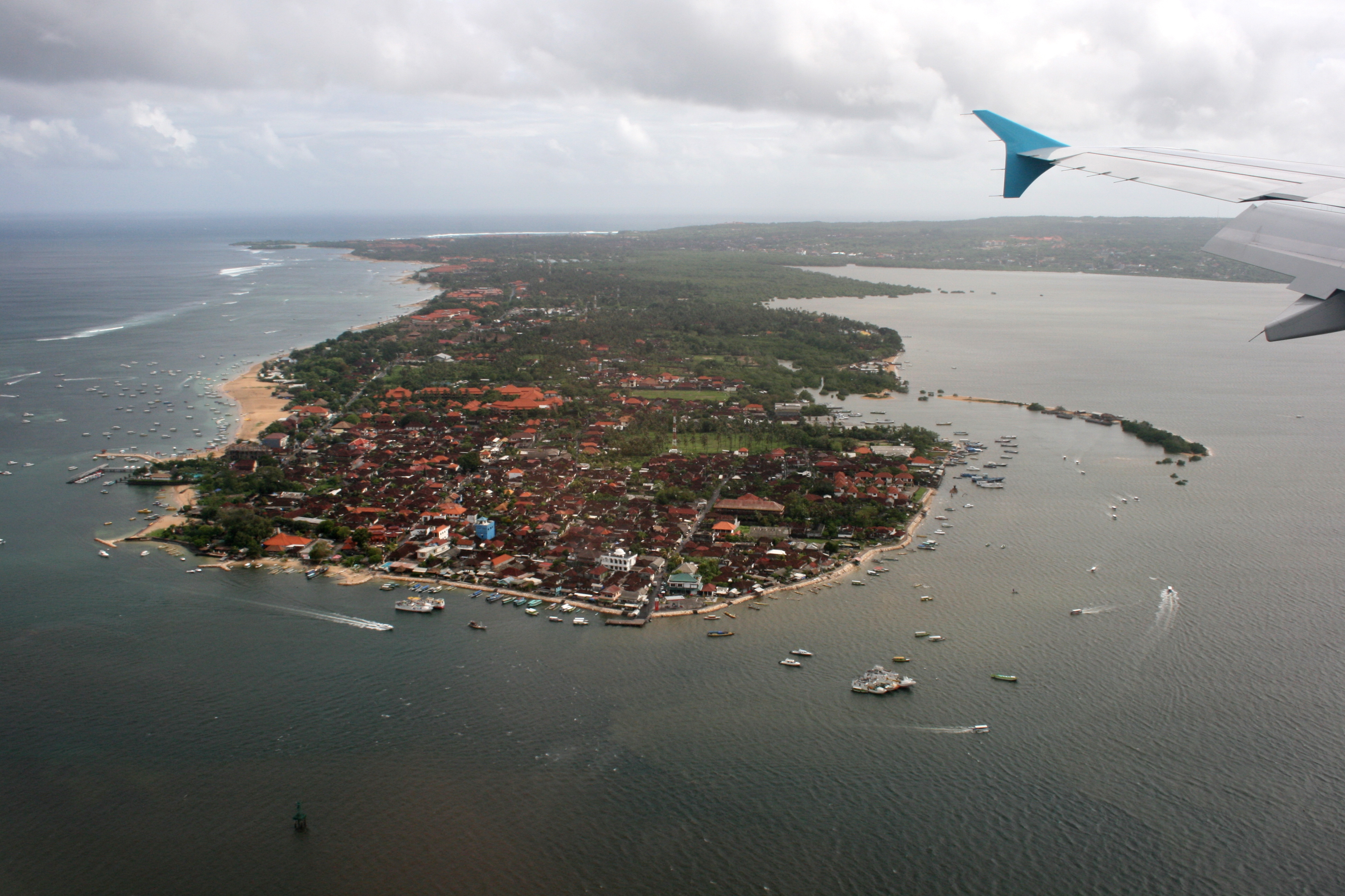 Tanjung Benoa with Nusa Dua in the background. Bali, Indonesia